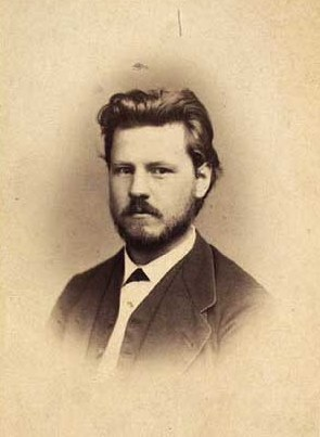 Johan Ulrik Bredsdorff (1845-1928), Danish painter